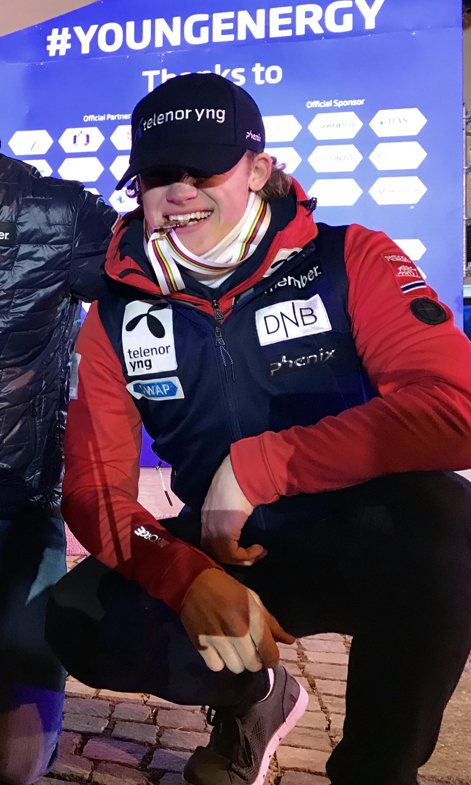 Lucas Braathen at the 2019 junior alpine world championships